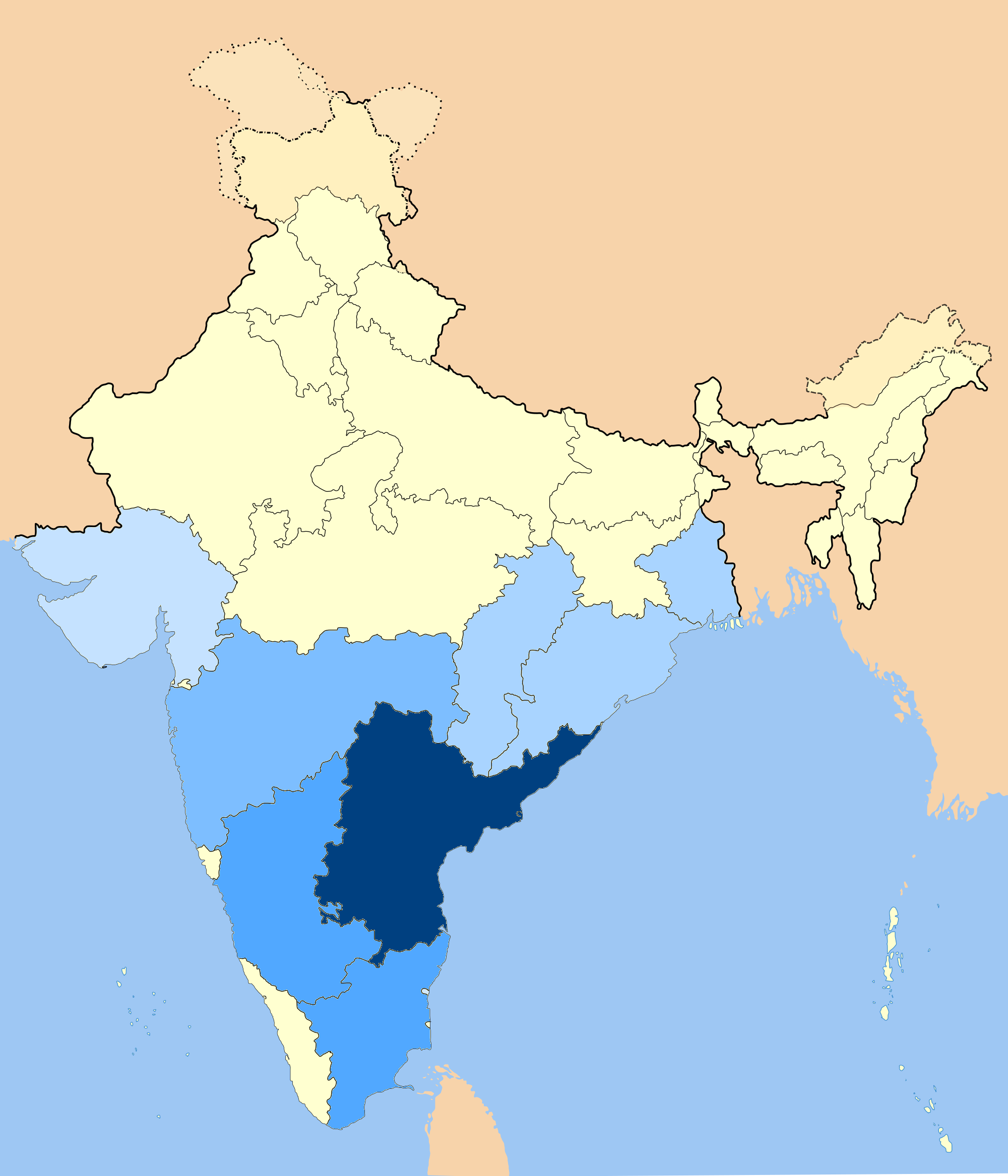 A map showing the distribution of Telugu speakers in India